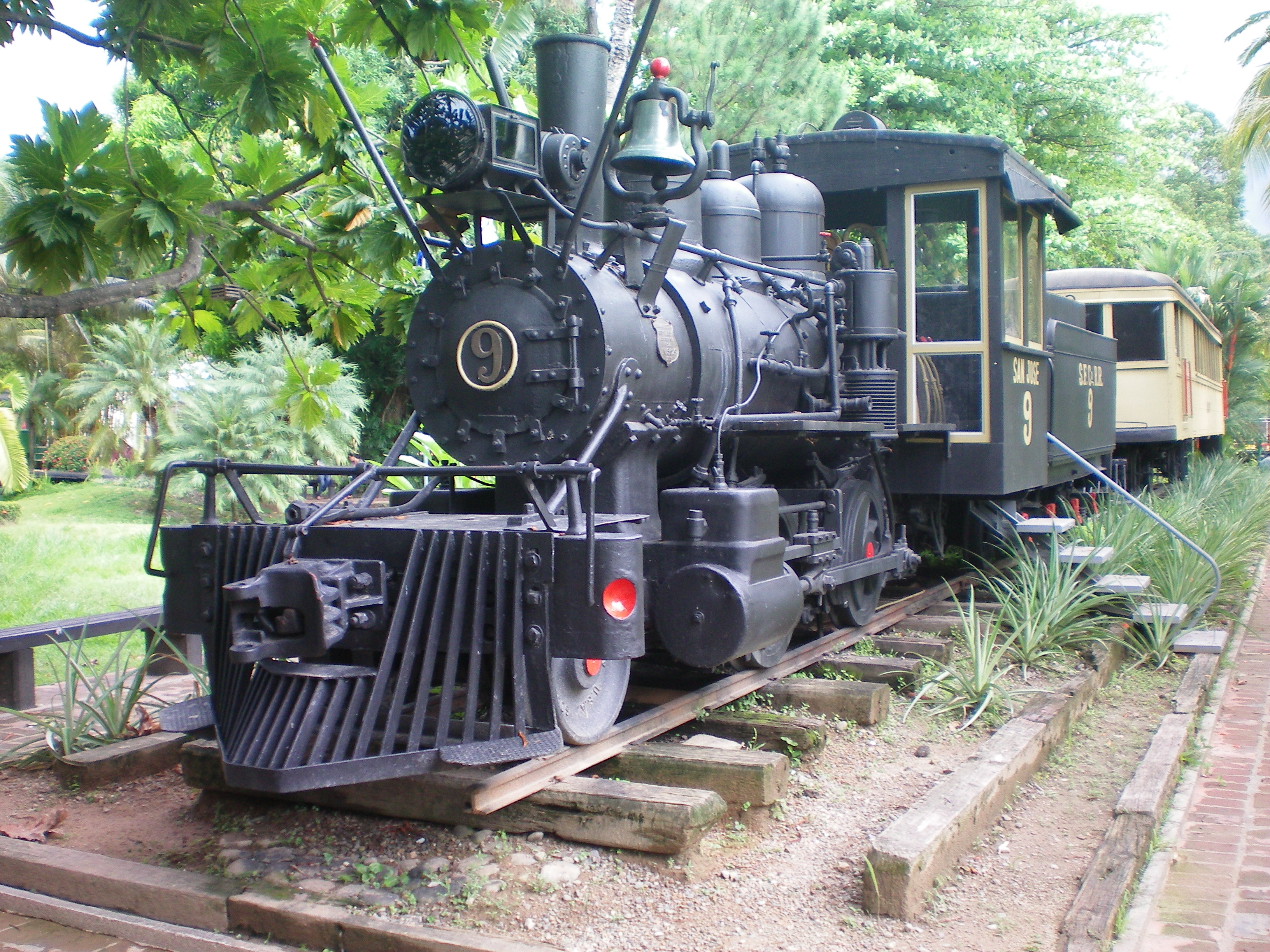 Steam train in Parque Swinford, La Ceiba, HonduraS